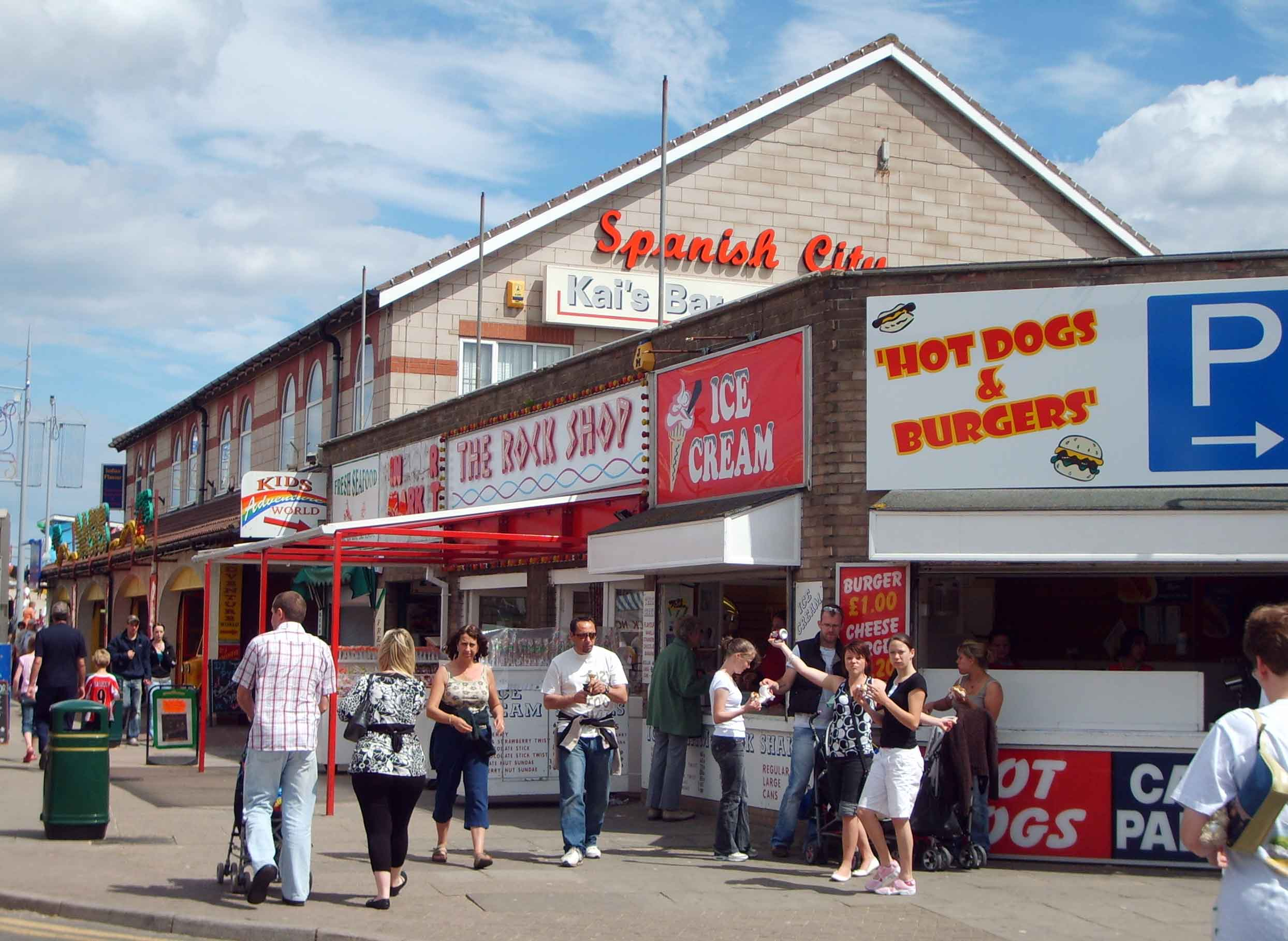 Spanish City during Summer 2007.